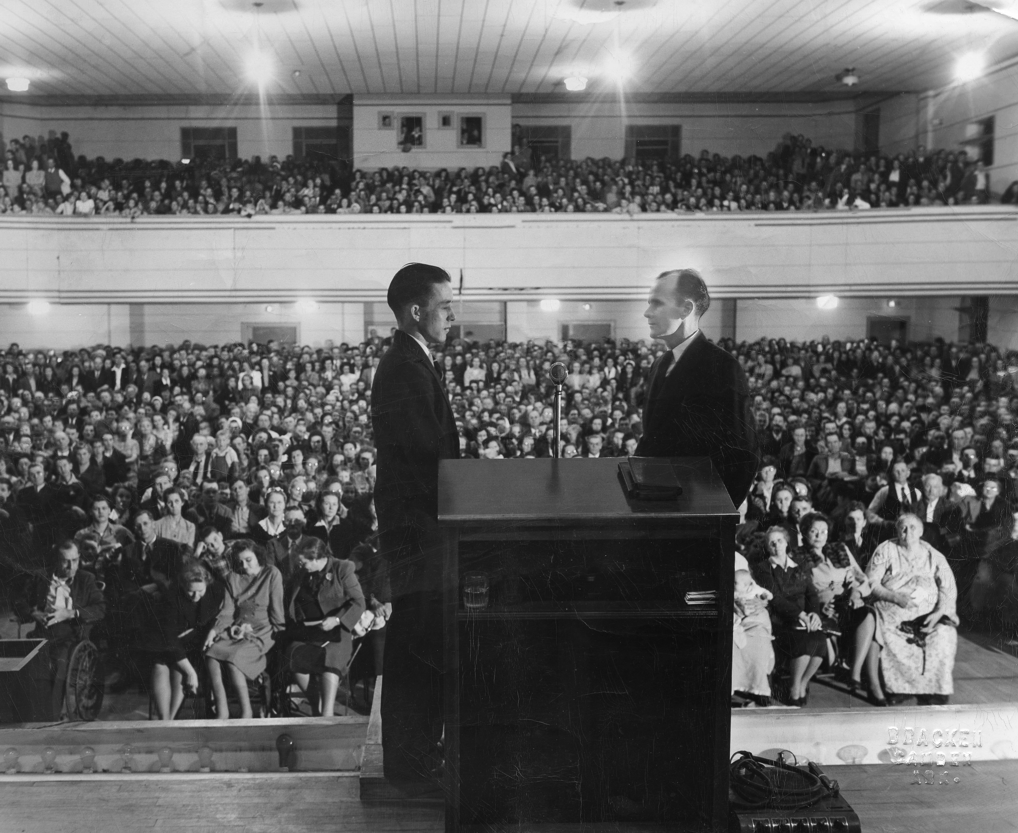 Branham stands before a crowd at a campaign appearance, as seen in A Man Sent From God, 1950